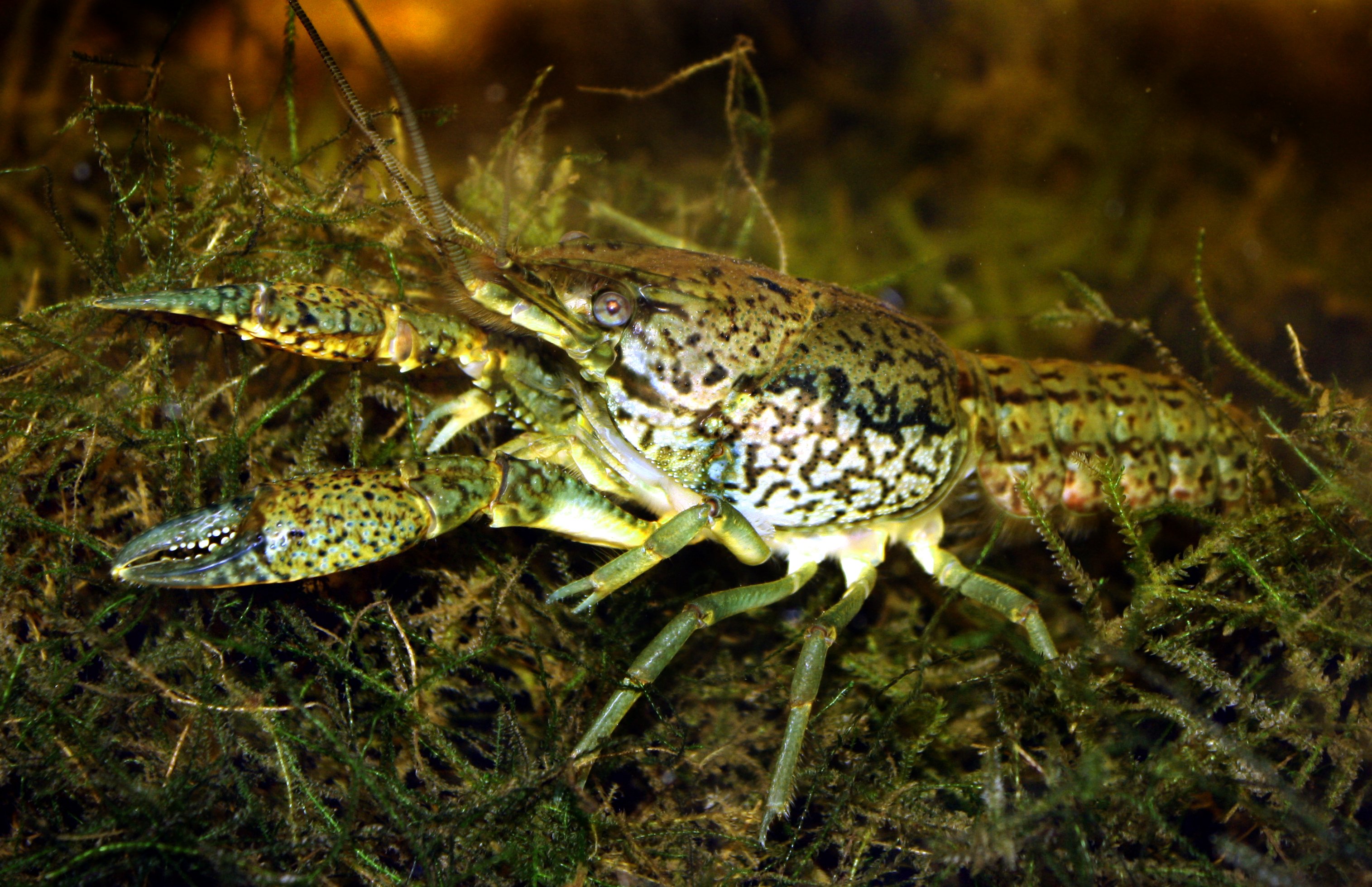 Marmorkrebs–the specimen was caught from an established population in southwestern Germany